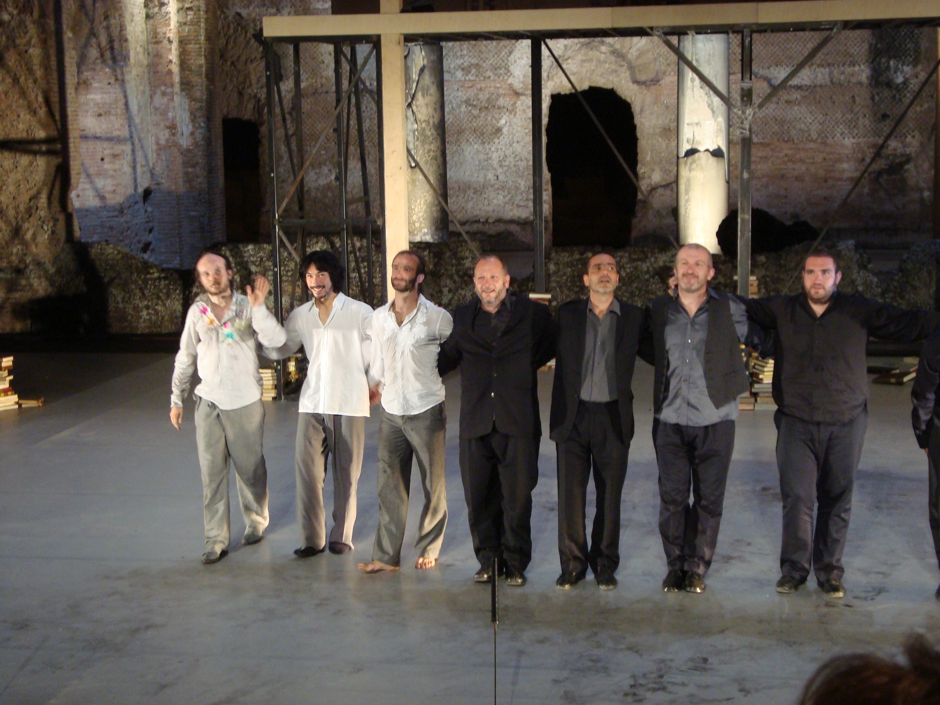 The choreographer Sidi Larbi Cherkaoui (extreme left) with the Corsican polyphonic group A Filetta at the end of Apocrifu, June 24th 2009, Villa Adriana, Tivoli